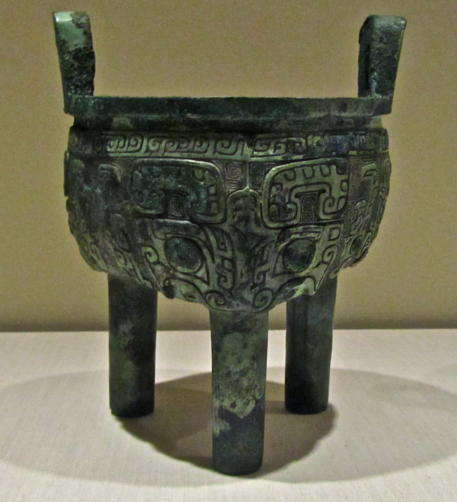 China, Shang or Zhou dynasty bronze, c. 1000 BCE. Taotie - a mask of an imaginary animal with eyes, horns, snout and jaw. Motif common in Shang and early Zhou dynasties.